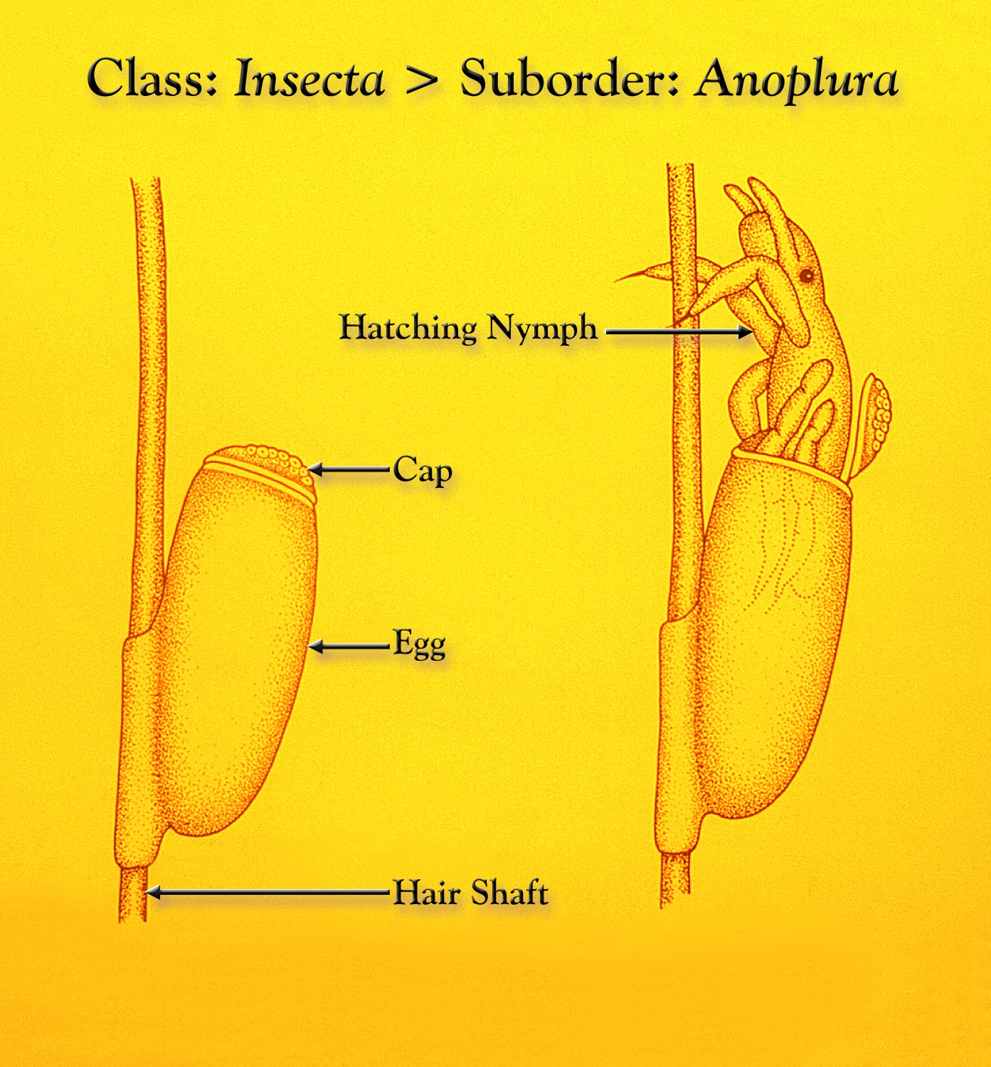 This illustration depicts the morphologic characteristics of a typical louse egg, and the manner in which it is attached to the mammalian host’s hair shaft. The eggs are glued to the hairs of the mammalian host. All louse eggs have a cap. During the hatching process the young louse pushes at the “cap” from the inside forcing off the cap, thereby, enabling the nymphal louse to emerge from the egg.